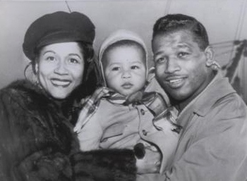 Original 1951 Sugar Ray Robinson Wife & Jr. Wire Photo